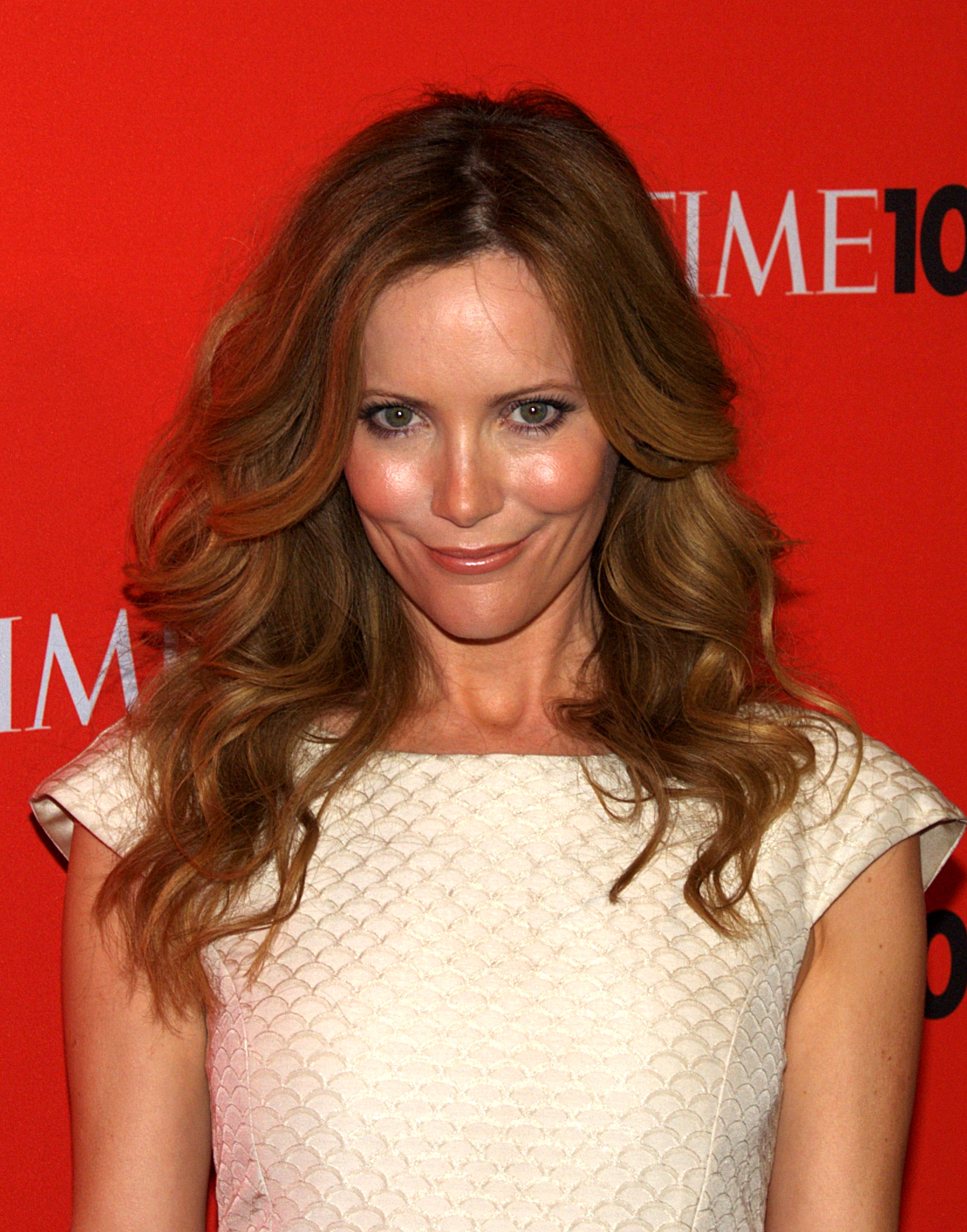 Leslie Mann at the 2010 Time 100.